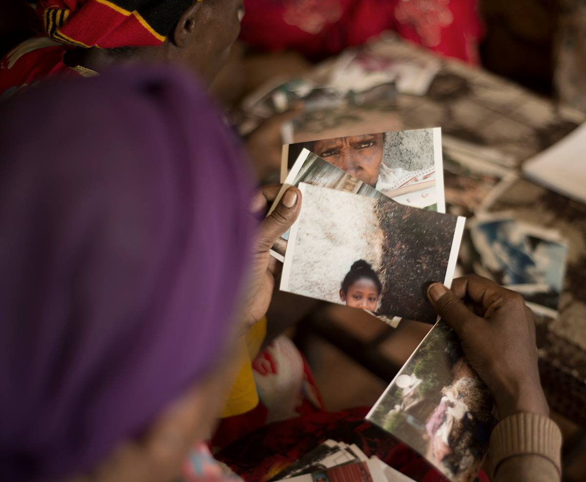 This is from field work in Ethiopia. A woman reviews her photography.